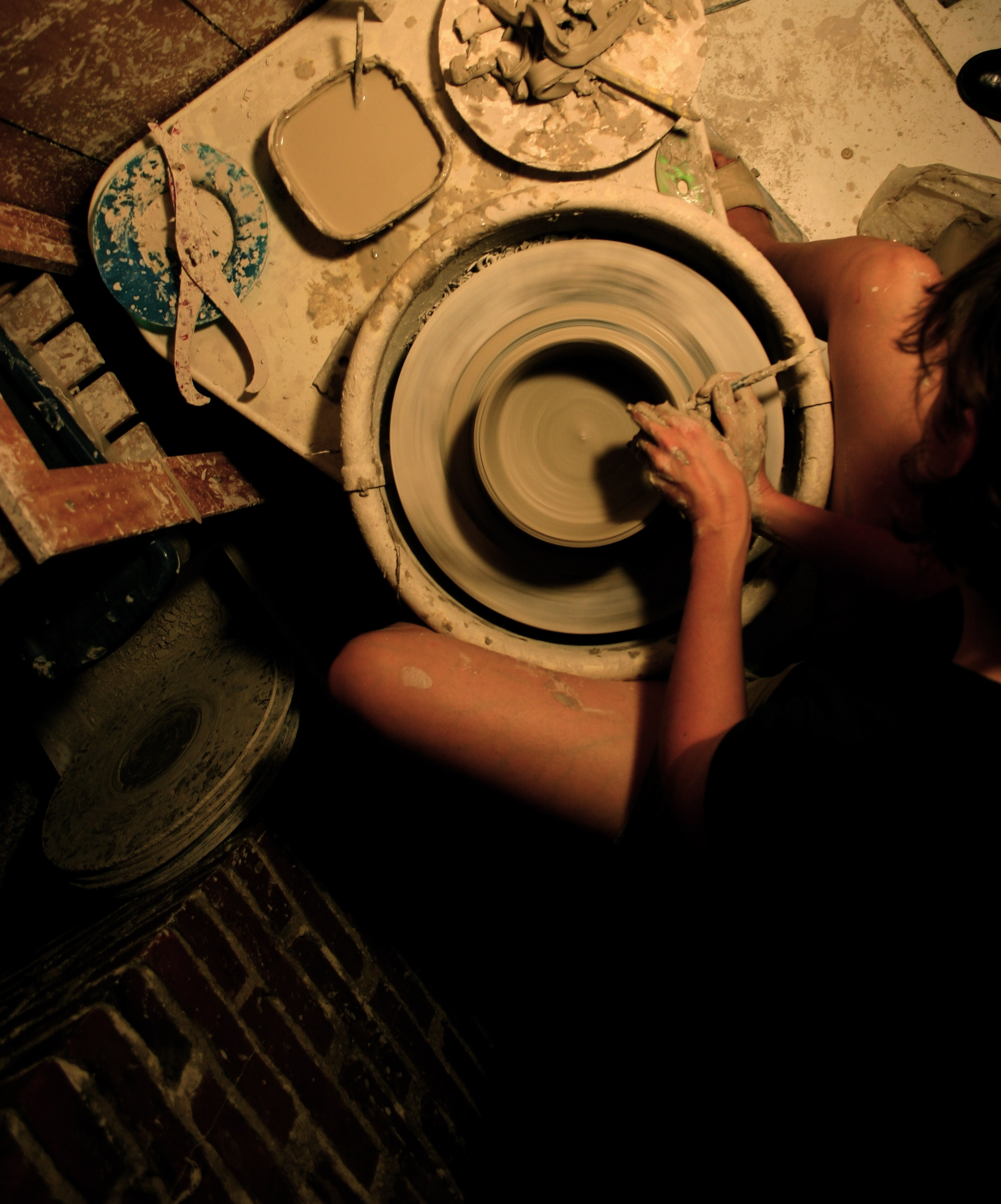 A potter creates a bowl on her electric-powered pottery wheel. (Location: Memphis, Tennessee. Potter: Melissa Bridgman of Bridgman Pottery)